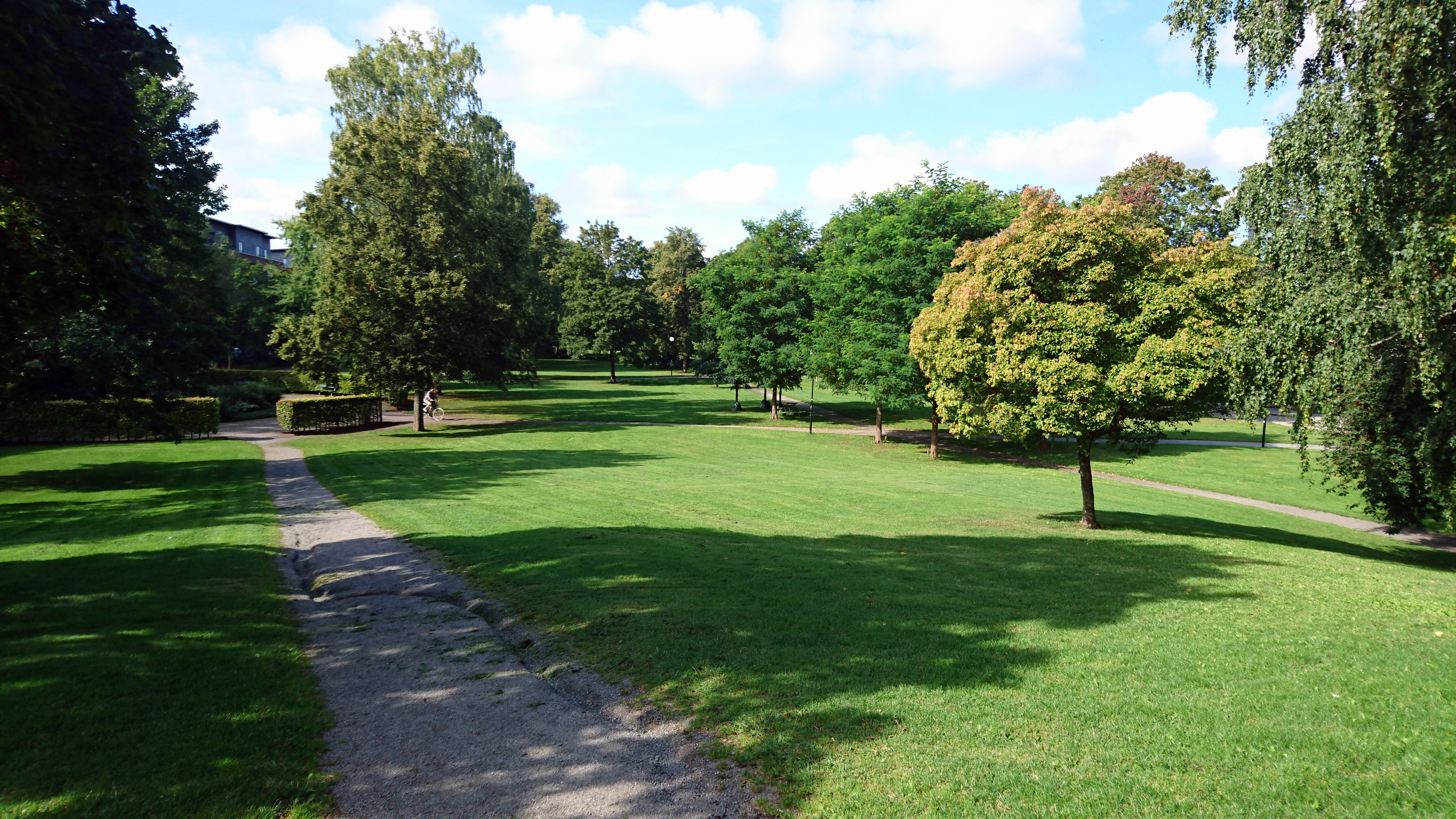 The park Sveaparken, Örebro, Sweden